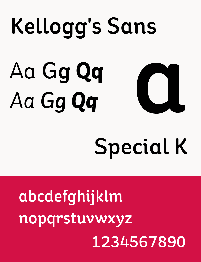 Sample of Kellogg's Sans (typeface made for Kellogg's)